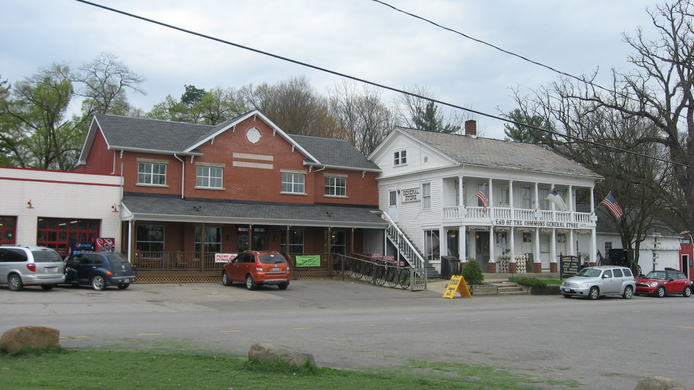 Buildings on the southwestern corner of the village green and the northwestern corner of the junction of State Routes 87 and 534 at Mesopotamia in Mesopotamia Township, Trumbull County, Ohio, United States. The green and surrounding buildings compose the Mesopotamia Village District, a historic district that is listed on the National Register of Historic Places.